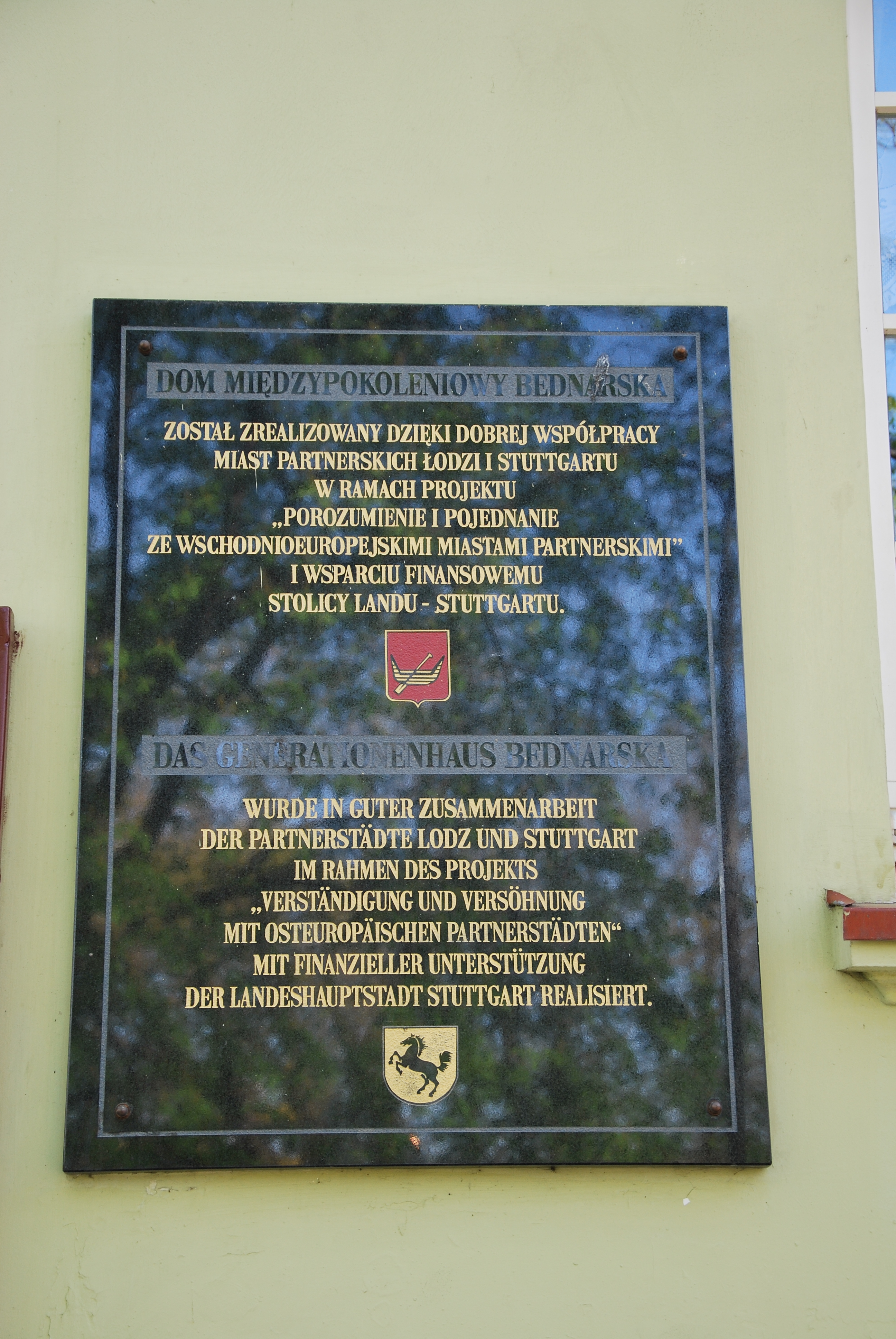 Plaque Generation House, Park im. Legionów Łódź